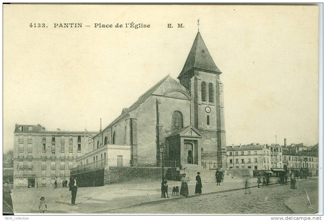 Saint-Germain l'Auxerrois church in Pantin (suburb of Paris) around 1900